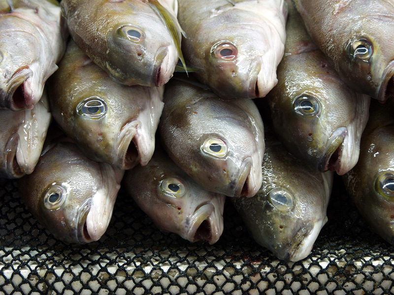 Fish at Ensenada´s fishmarket